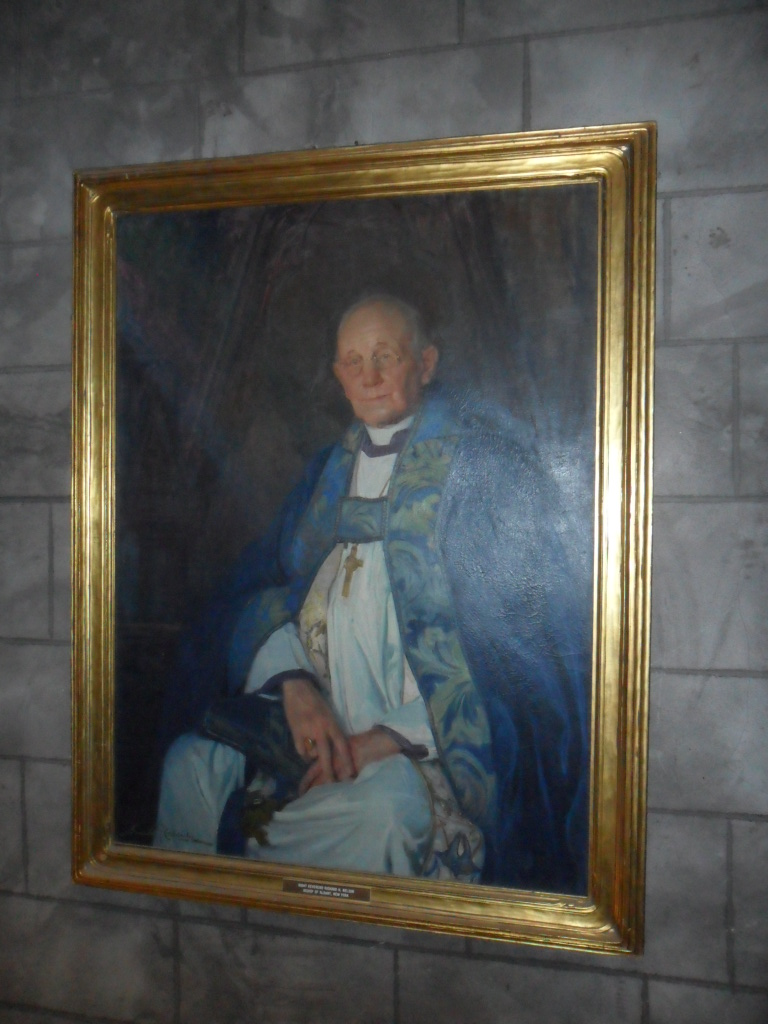 Painting of The Very Rev. Richard H. Nelson